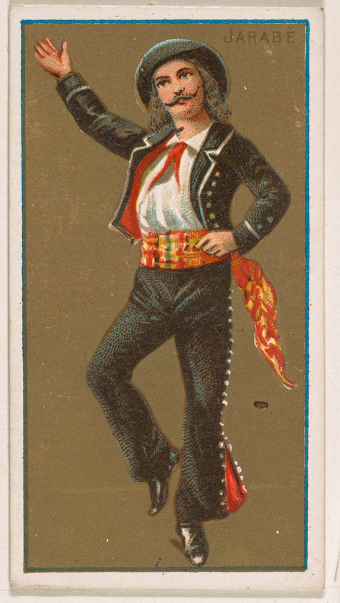 Print; Prints